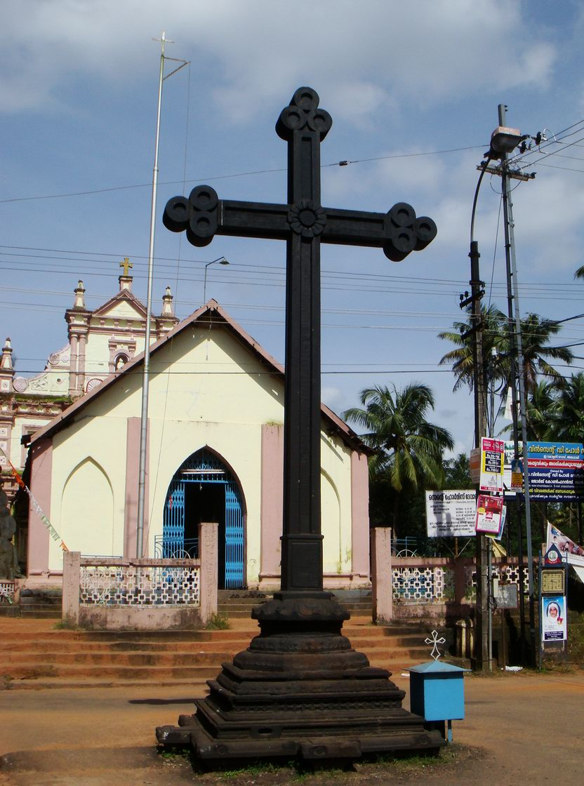 St Hormis church, Angamaly